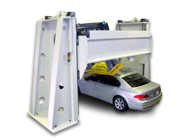 Roof Cruch Test Facily after FMVSS 216a with 245 kN compressive force from Ernst & Co Prüfmaschinen GmbH